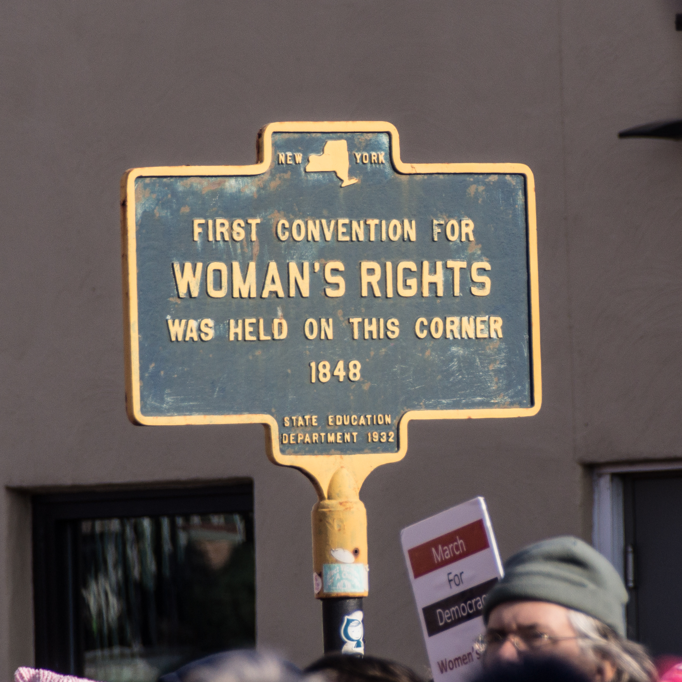 First Convention for Woman's Rights was held on this corner 1848 #WomensMarch #WomensMarch2018 #SenecaFalls #NY